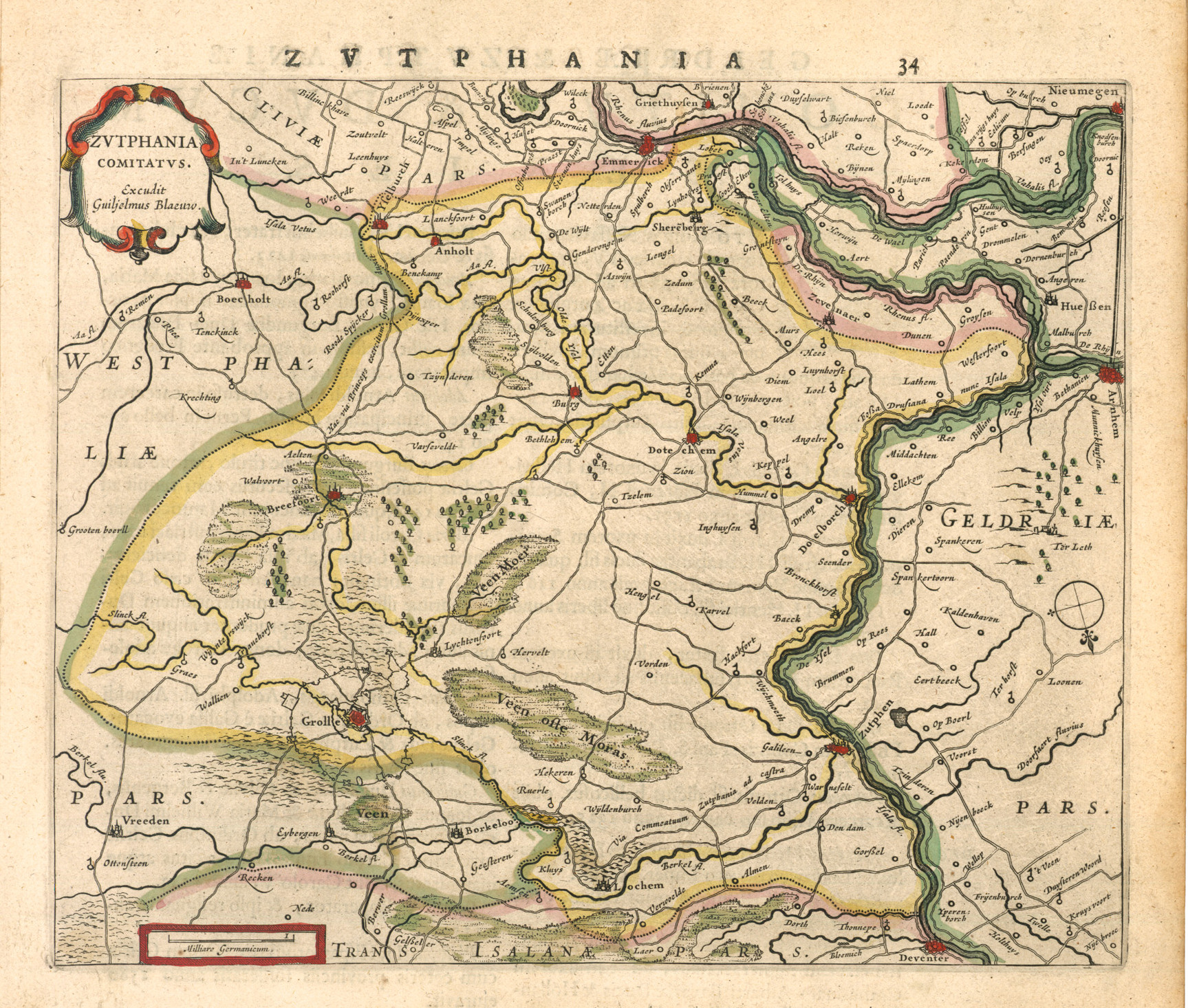 Zutphania Comitatus (County of Zutphen [now a Dutch municipality]) from "Theatrum Orbis Terrarum, sive Atlas Novus in quo Tabulæ et Descriptiones Omnium Regionum, Editæ a Guiljel et Ioanne Blaeu" (Theater of the World, or a New Atlas of Maps and Representations of All Regions, Edited by Willem and Joan Blaeu), 1645.